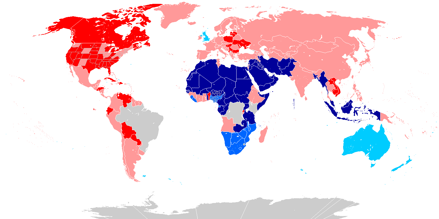 Polygamous marriages by country Legend according to [1]: Polygamous marriages allowed under the law1,2 Recognized under customary law Polygamous marriages performed elsewhere recognized Unknown/ambiguous Polygamous marriage illegal State constitution fully criminalizes polygamous marriage 1Illegal in all forms; exempt Muslims in the countries of India, Singapore, and Sri Lanka 2Federal Eritrea law bans polygamous marriage but is allowed in certain countries and regions with Sharia, Muslims only may legally contract polygamous marriages *Polygamous unions are not legally recognized in Mauritius, however law allows for Muslim men to take up to four wives but they aren't recognized as wives under the law